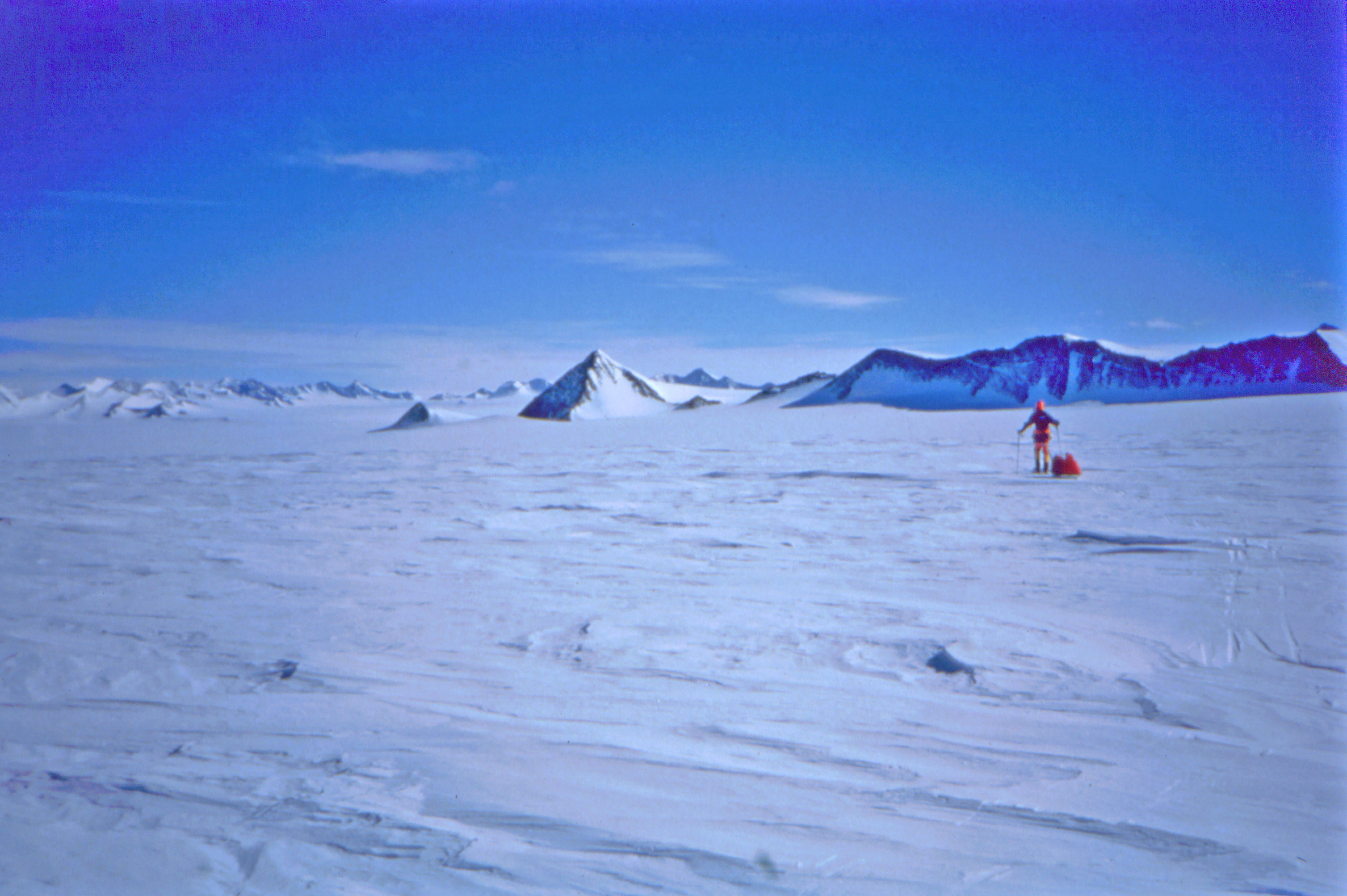 The Horseshoe Valley is a large circle of mountains in Anctartica. They are part of the Heritage Range, which is part of the Ellsworth Mountains. In the picture one can see a snow cone, named Lippert peak. At the horizon a black mountain is the Cima Chiavari.